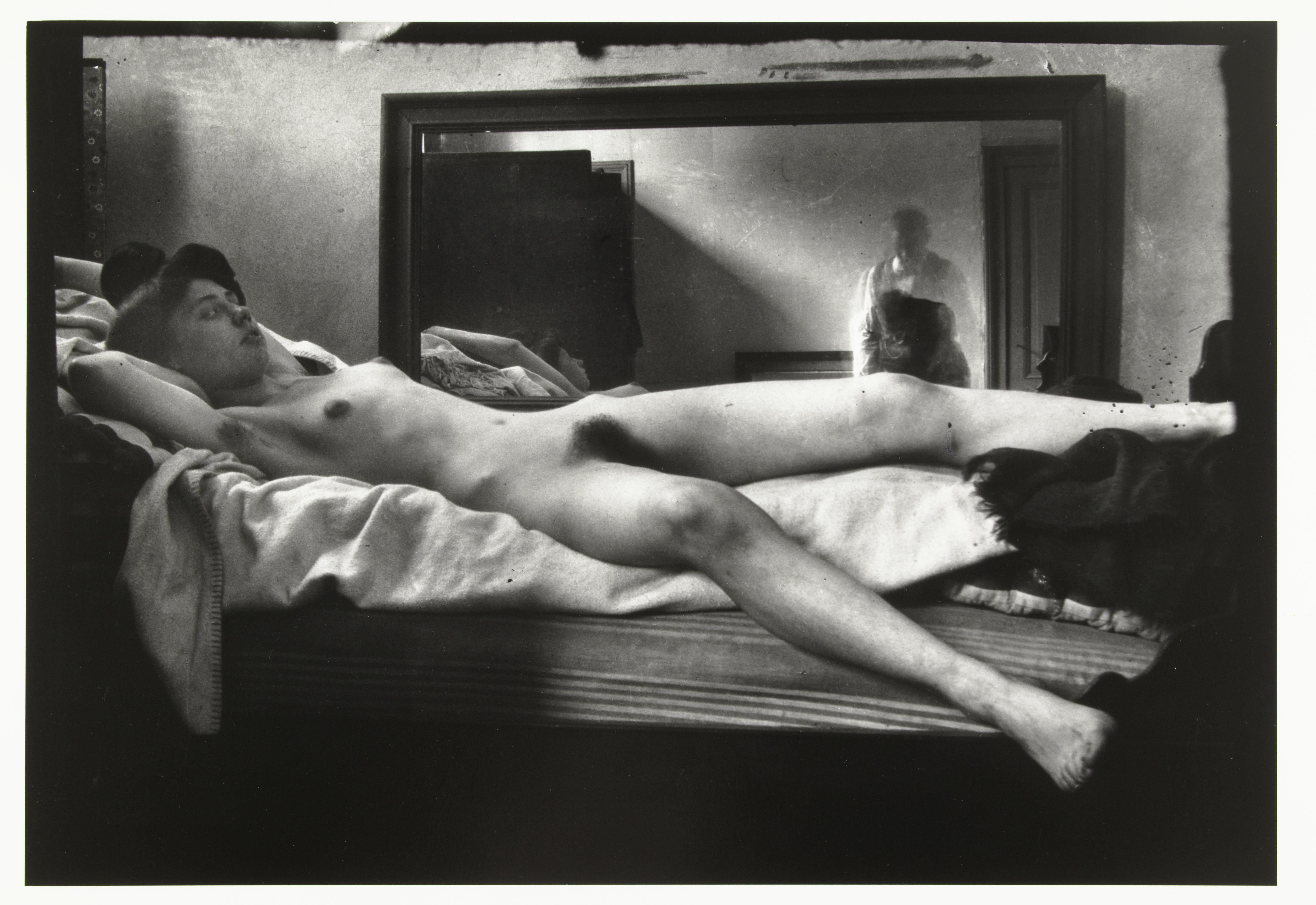 Portret_van_een_vrouwelijk_naakt_met_in_de_spiegel_de_fotograferende_Breitner